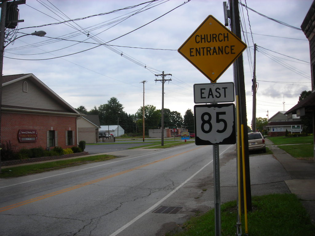 Ohio State Route 85